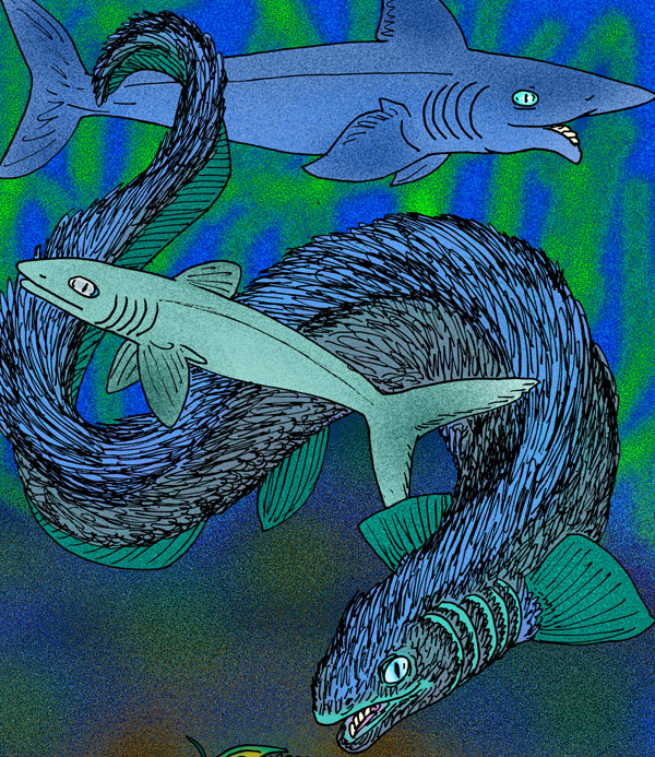 Three Carboniferous cartilaginous fish, Agassizodus variabilis, Romerodus orodontus and Listracanthus hystrix (C) Stanton F. Fink